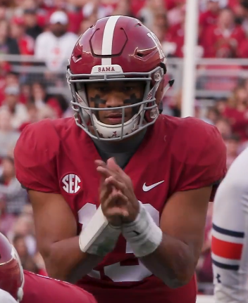 Tua Tagovailoa pre-snap versus the Auburn, Nov 27, 2018